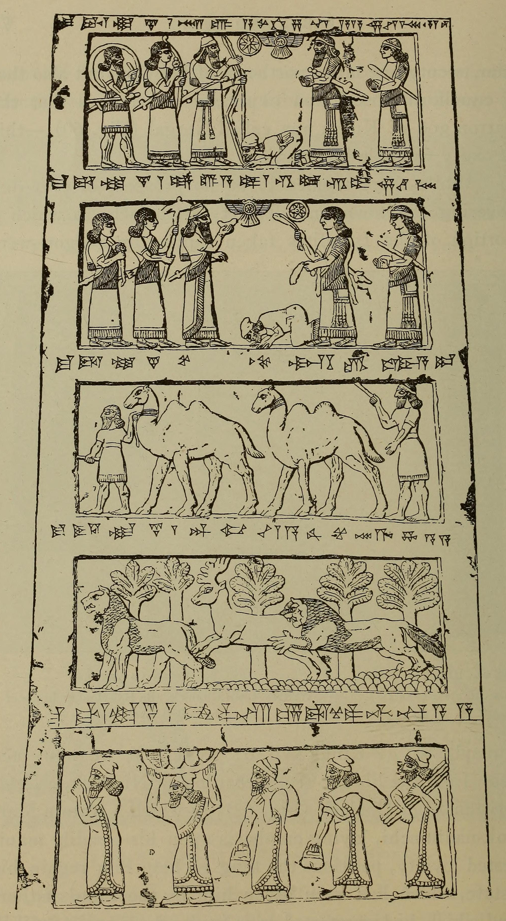 Title: Babel and Bible; Subjects: Bible Publisher: Chicago, The Open court publishing company Text Appearing Before Image: Text Appearing After Image: Fig. 63. As to the inhabitants of the northern kingdom of Israel, who are presented to our eyes so vividly by the famous black obelisk of Shalmanezer II (Fig. 61) in its second row (Figs. 63-66) - they are the ambassadors of King Jehu (840 B.C.) with gifts of various sorts, - we now know all three of the localities where the ten tribes found their grave: Chalach, somewhat farther east than the mountainous source of the upper Zab, called Arrapachitis; the province of Goshen along the Chabor probably not far from Nisibis; and thirdly, the villages of Media.